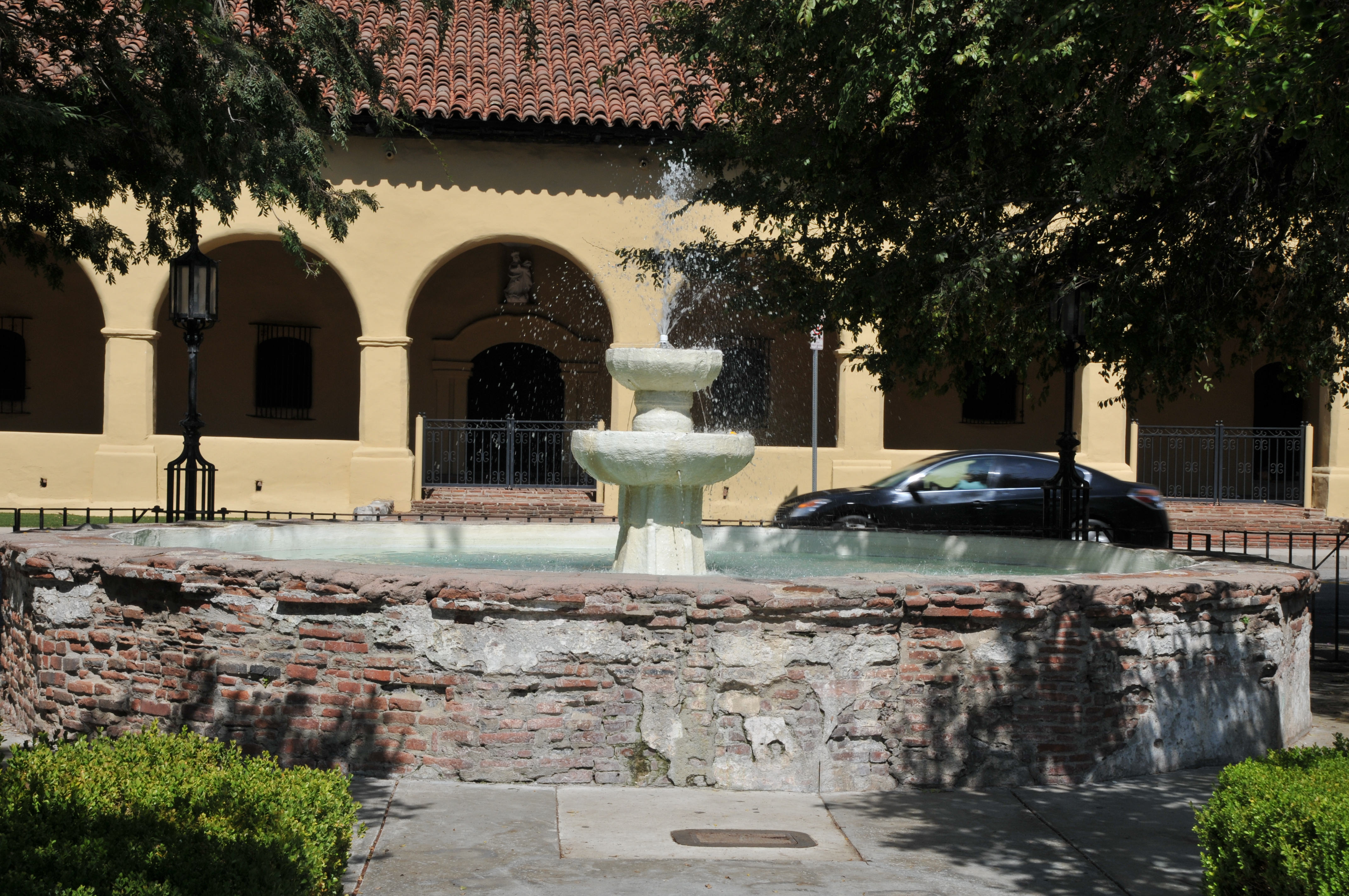 Fountain in gardens of Brand Park. Mission San Fernando Rey de España arcade in backround. Located in Mission Hills, San Fernando Valley, Los Angeles.